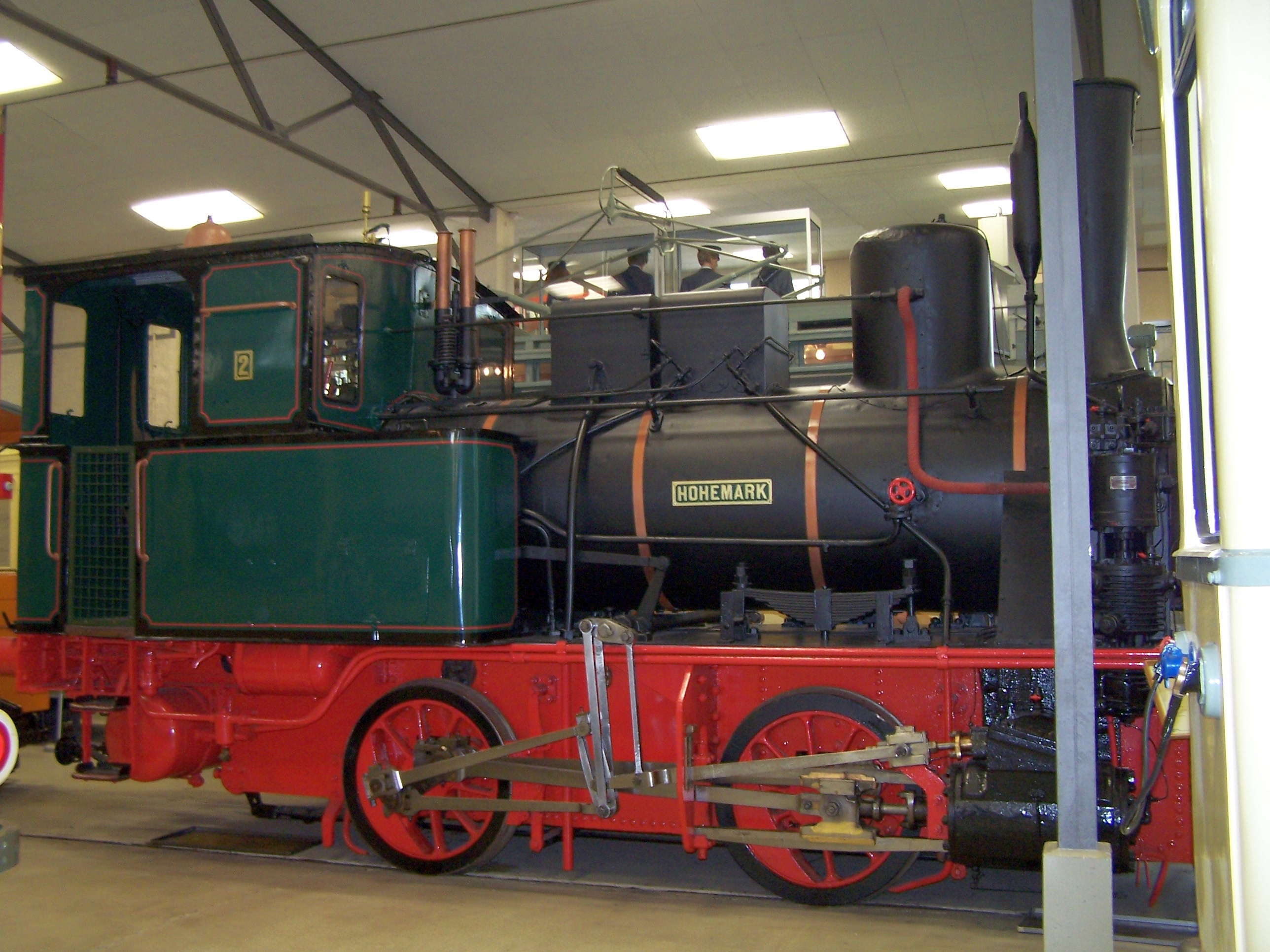 Hagans Bn2t-steam locomotive No. 2 "Hohemark" at the Verkehrsmuseum Frankfurt am Main in Frankfurt]-Schwanheim